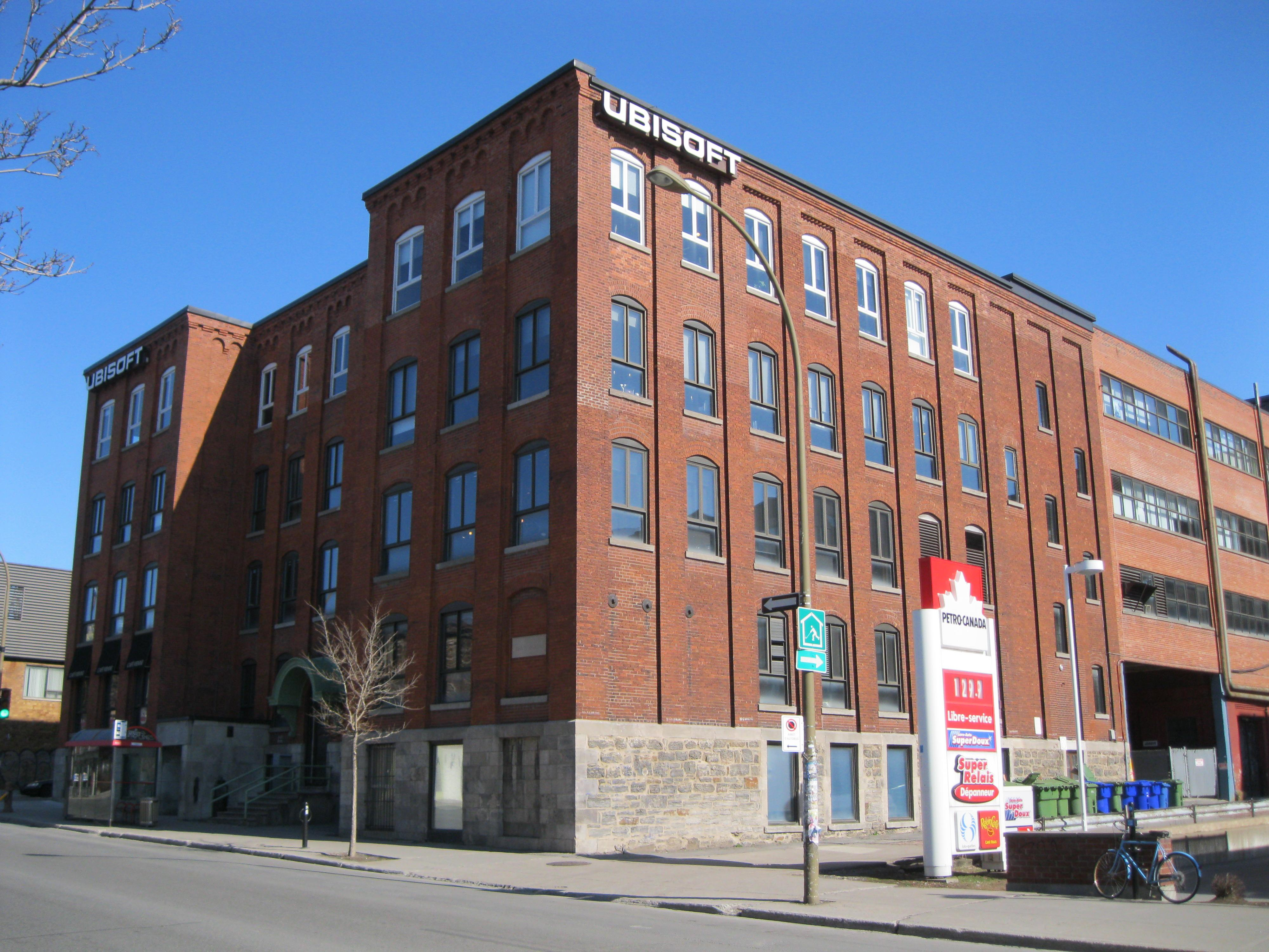 Ubisoft office in Montreal, 5505 Saint-Laurent Boulevard